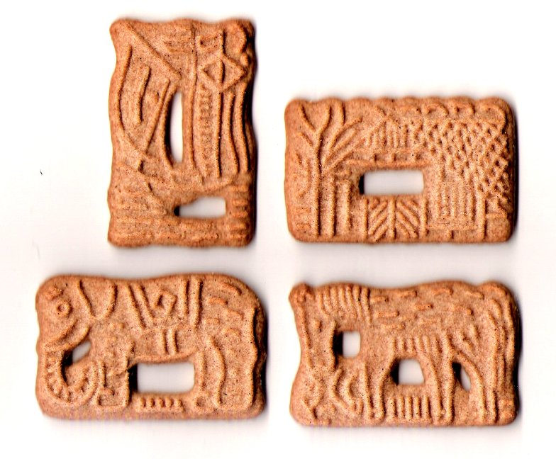 Four pieces of speculaas.